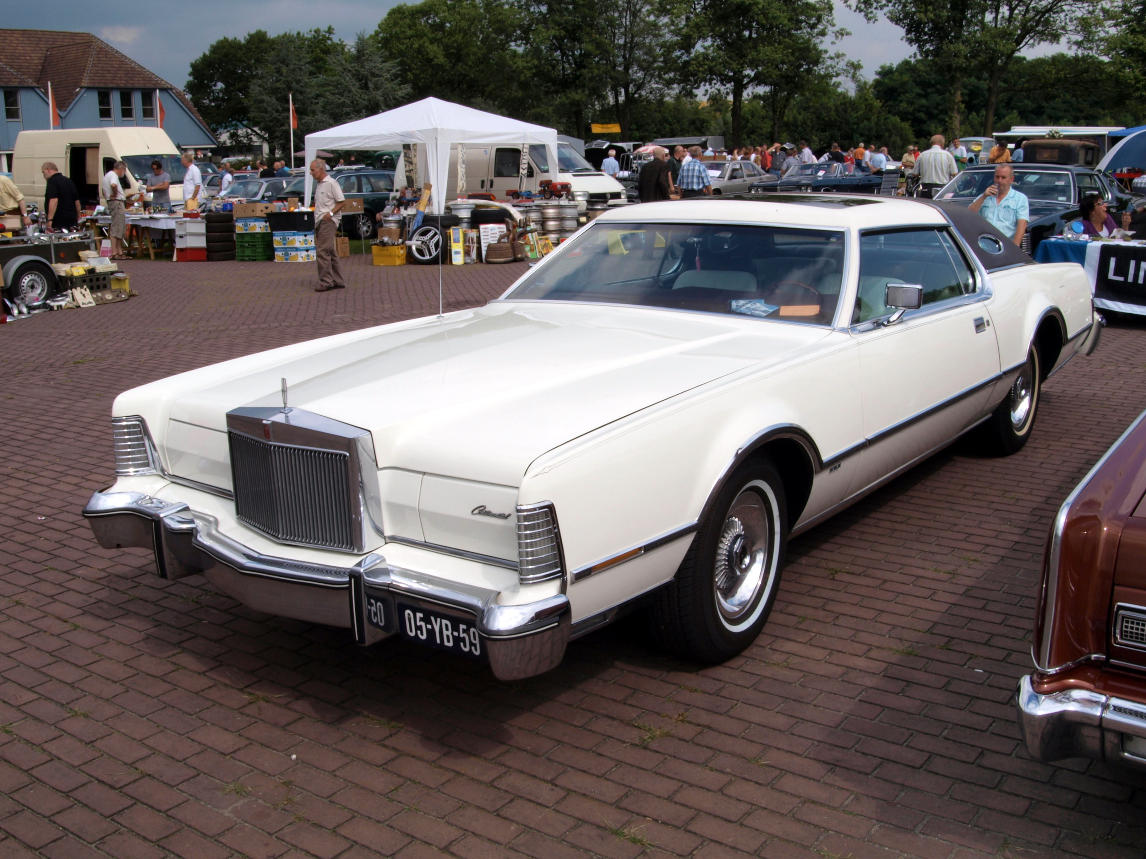 Photographed at the 2010 Autotron Classic car meeting, Rosmalen, The Netherlands. OLYMPUS DIGITAL CAMERA